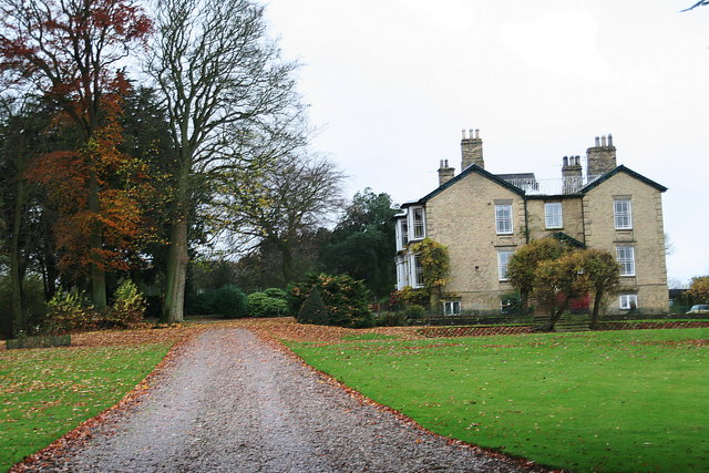 North Ormsby Manor